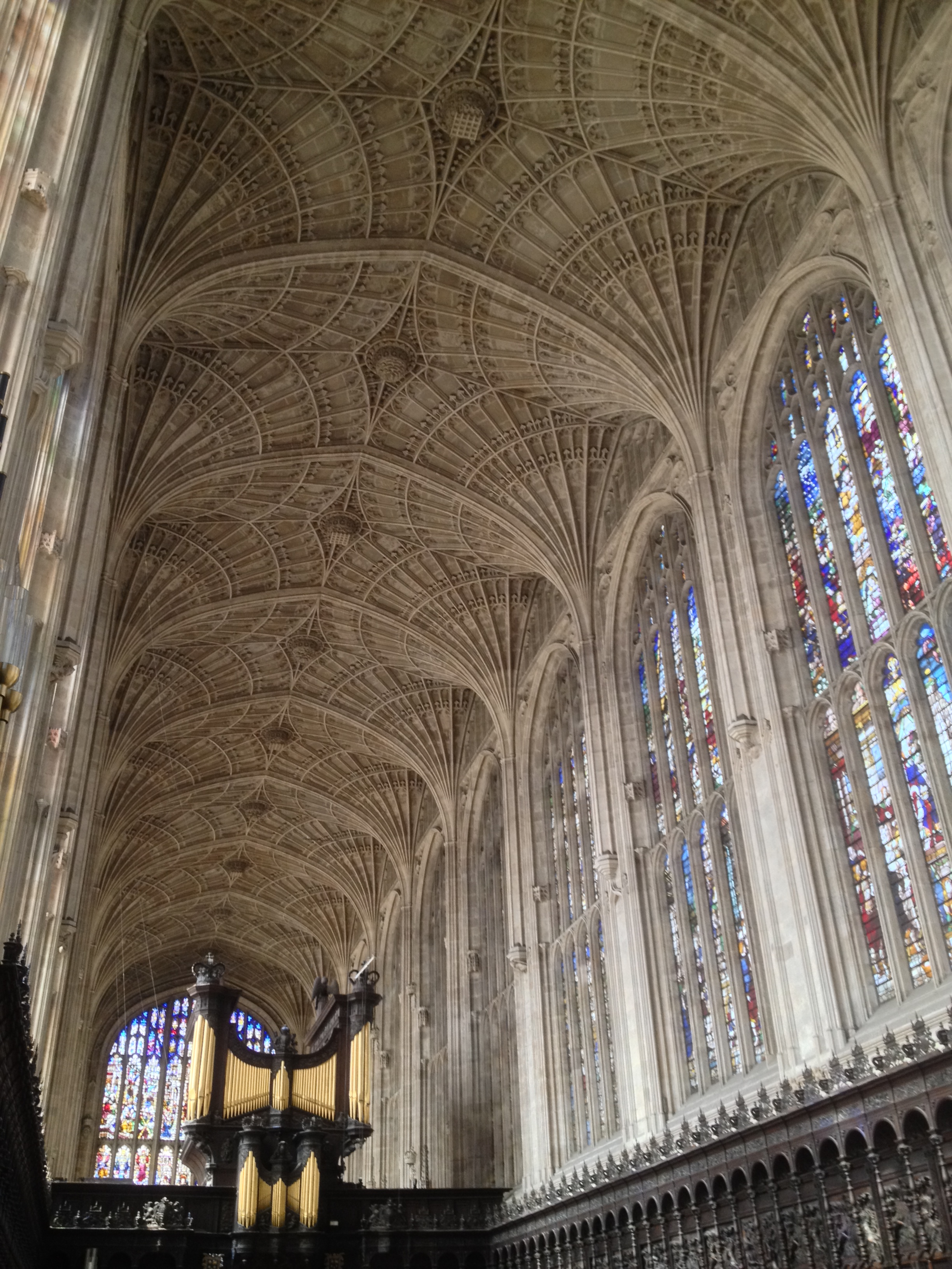 Cambridge King's College Chapel